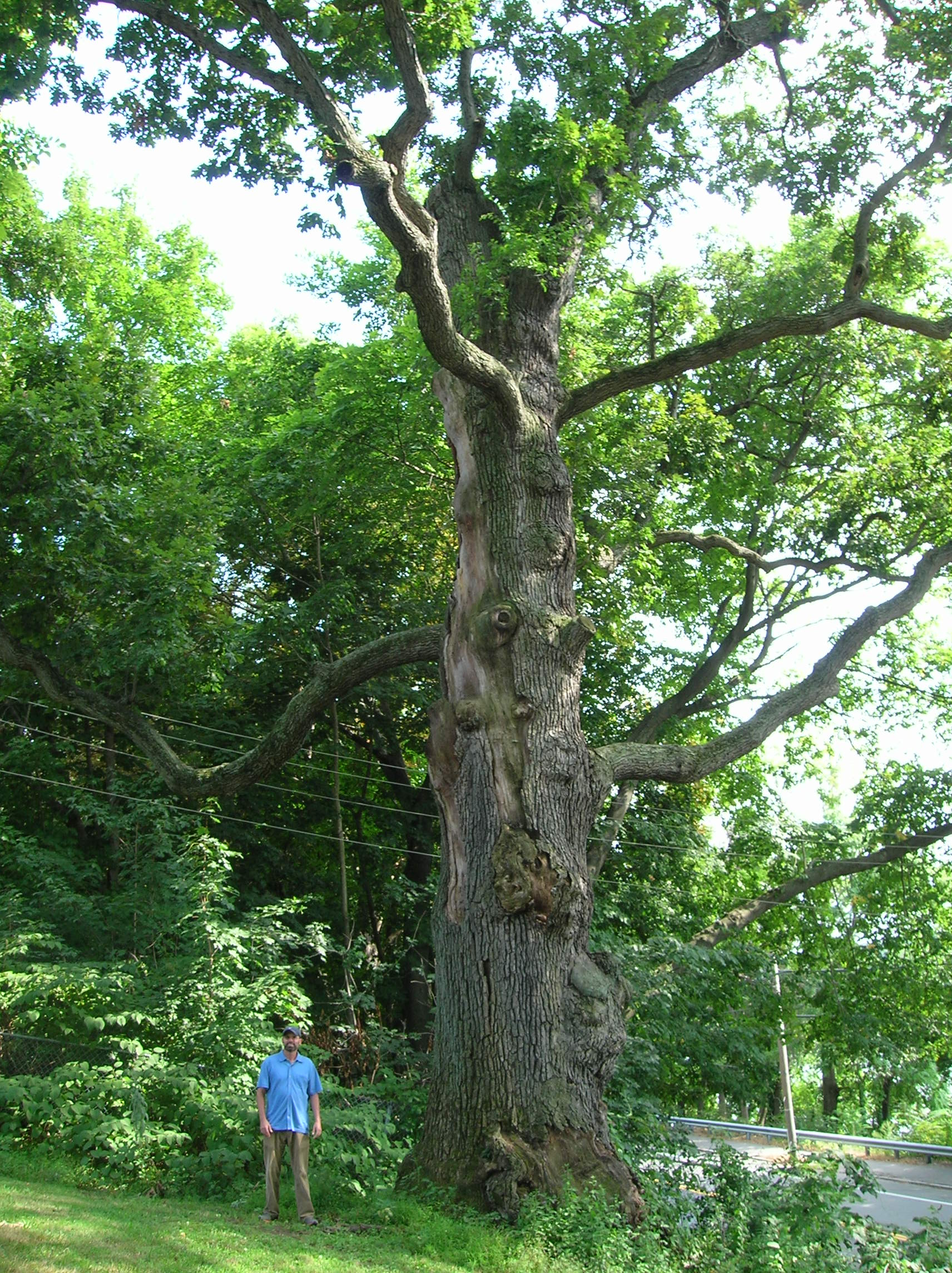 Photo of the "Worshipping Oak" located in Haverhill, MA, from August 2012. A sign posted near the tree states, "Early in the sixteen hundreds settlers to the area came to the Oak tree to worship. It was the site of a Sabbath meeting place until the year 1648. The approximate age of the tree is 350 years old."